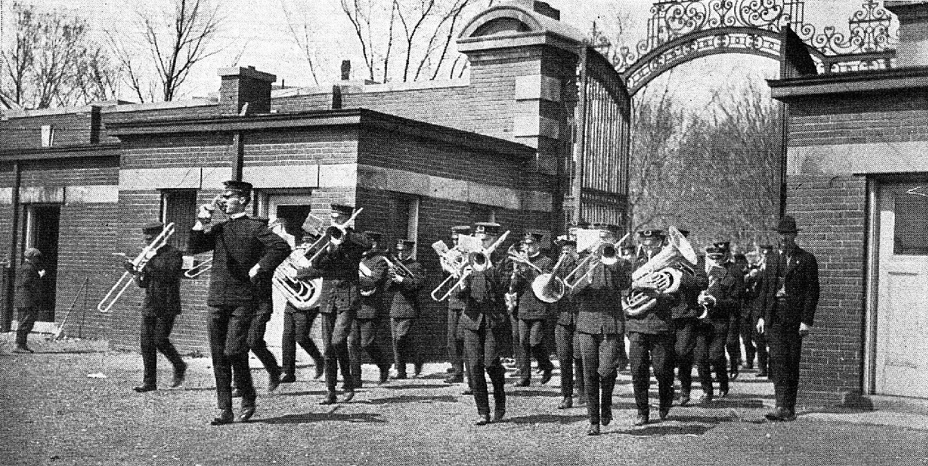 Photograph of Michigan Marching Band, entering the gates of Ferry Field, 1920